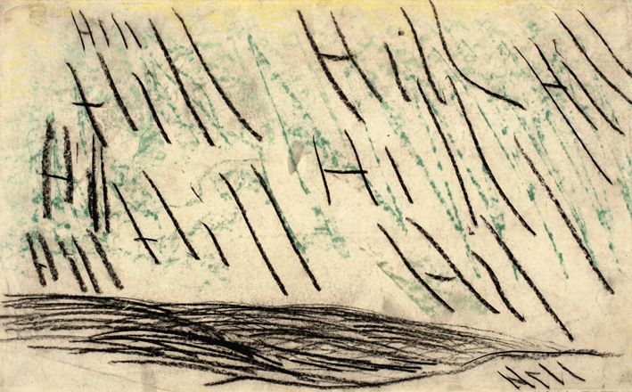 Drawing